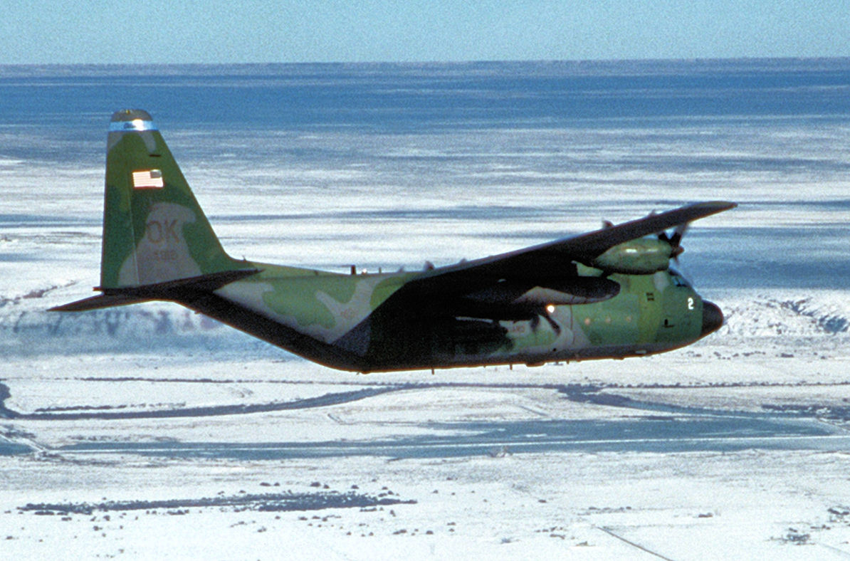 A U.S. Air Force Lockheed C-130H-LM Hercules aircraft (s/n 78-0812) from 185th Airlift Squadron, 137th Airlift Wing, Oklahoma Air National Guard (ANG), flies over snow blanketed New Mexico enroute to deliver hay to cattle stranded in remote fields after a major blizzard hit the area in December 1997.